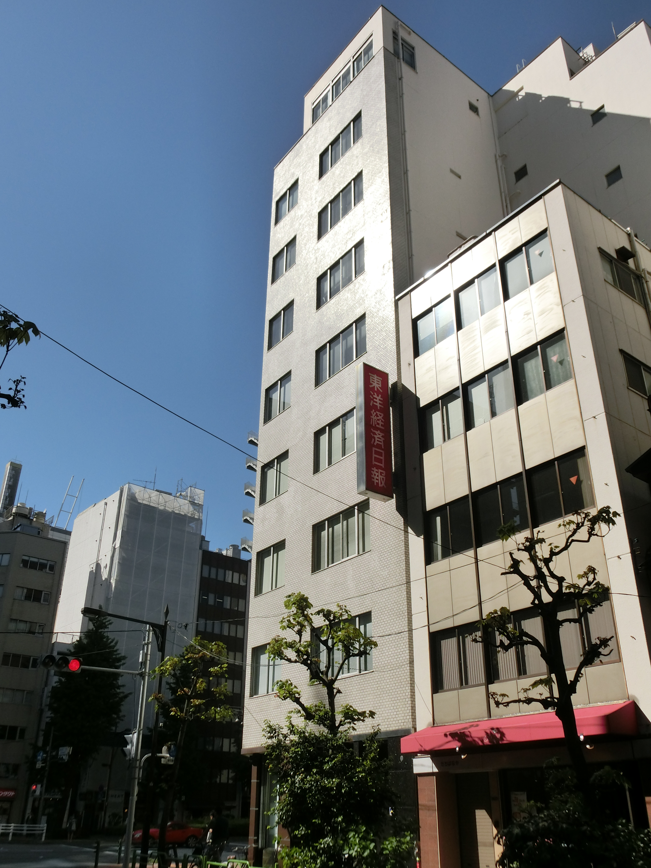 Toyo Keizai Nippo Head Office